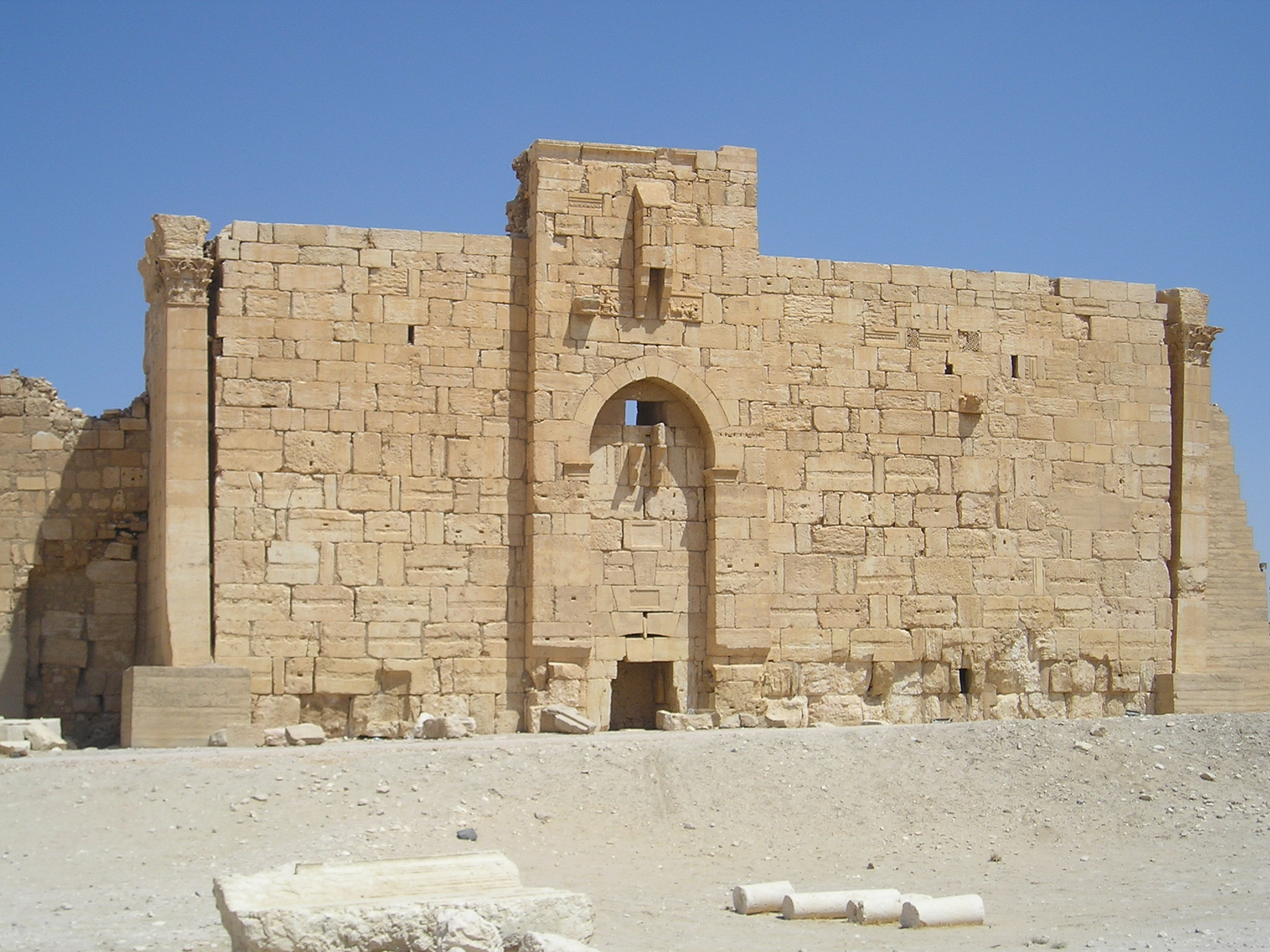 Palmyra, Syria - sanctuary of Bel